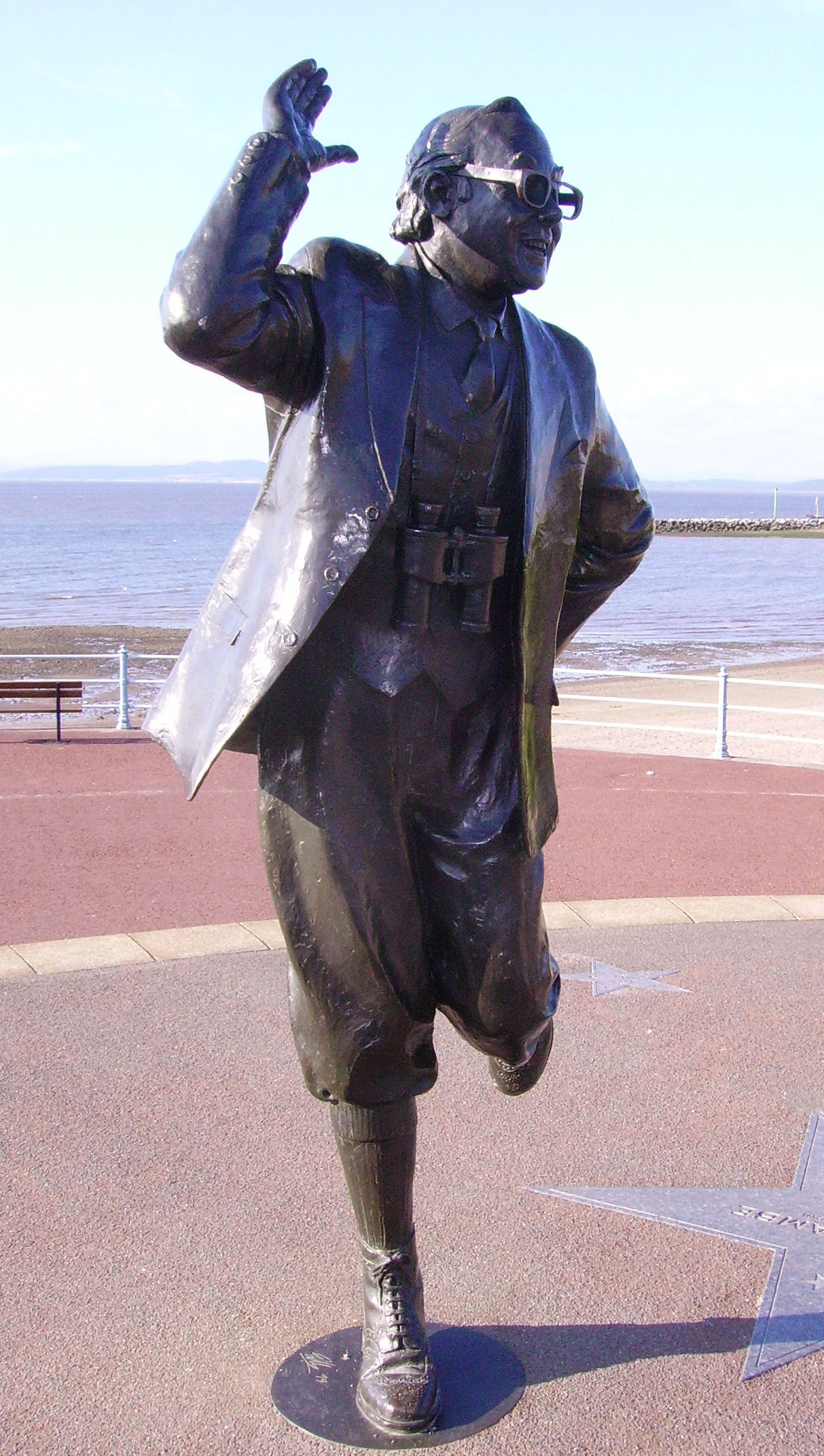 view of Morecambe, United Kingdom